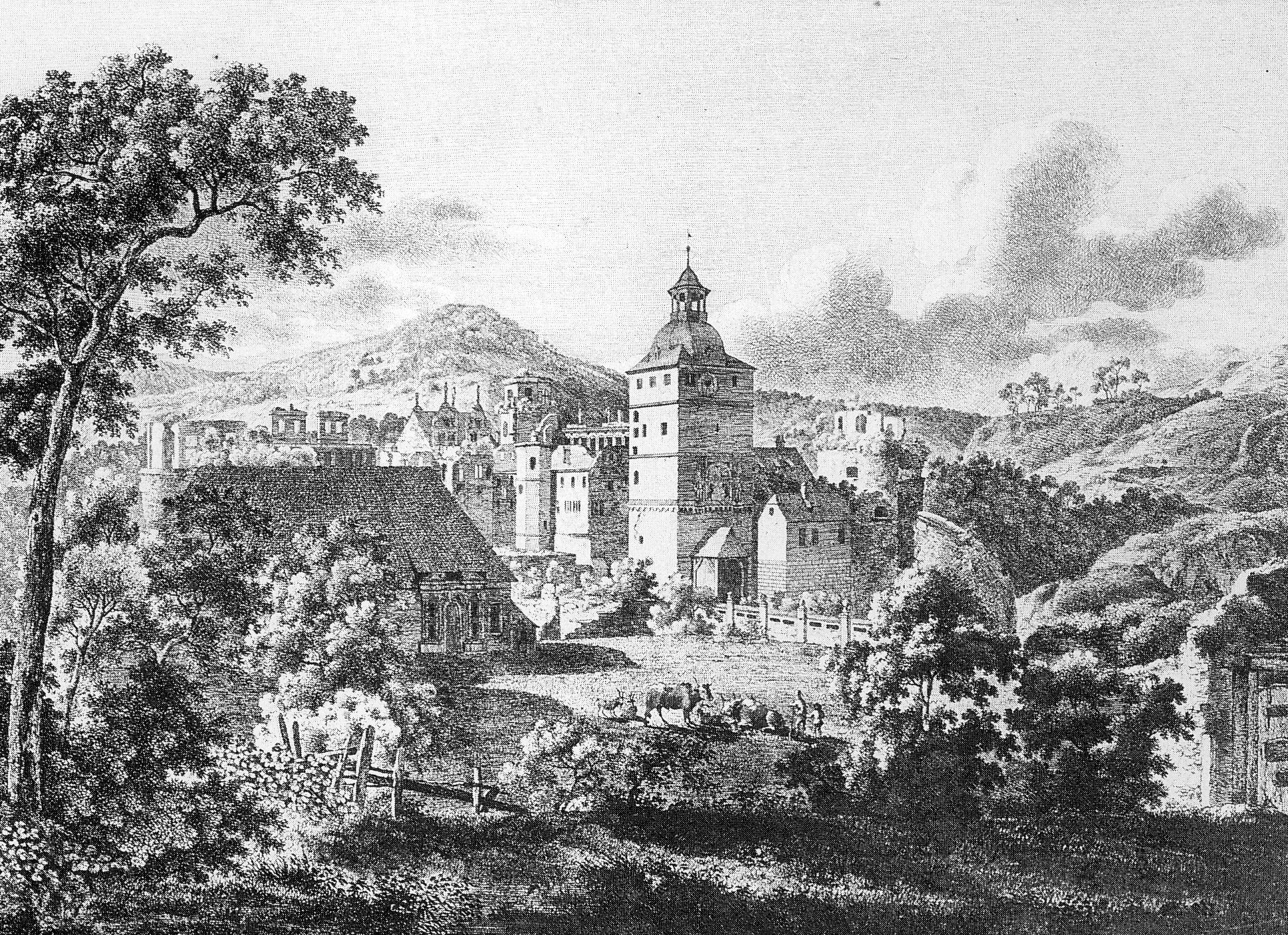 historic view of Heidelberg castle (Heidelberger Schloss) by Georg Primavesi